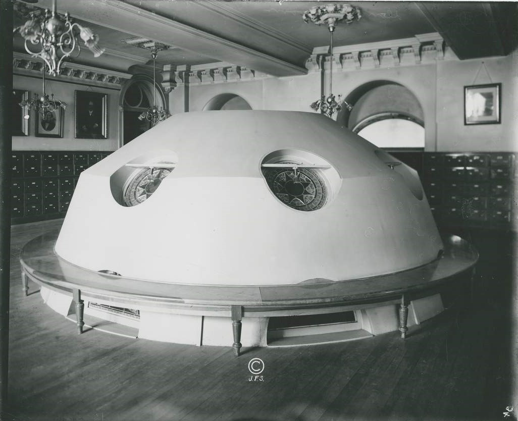 Dome room of the Salt Lake Temple, above the Holy of Holies.